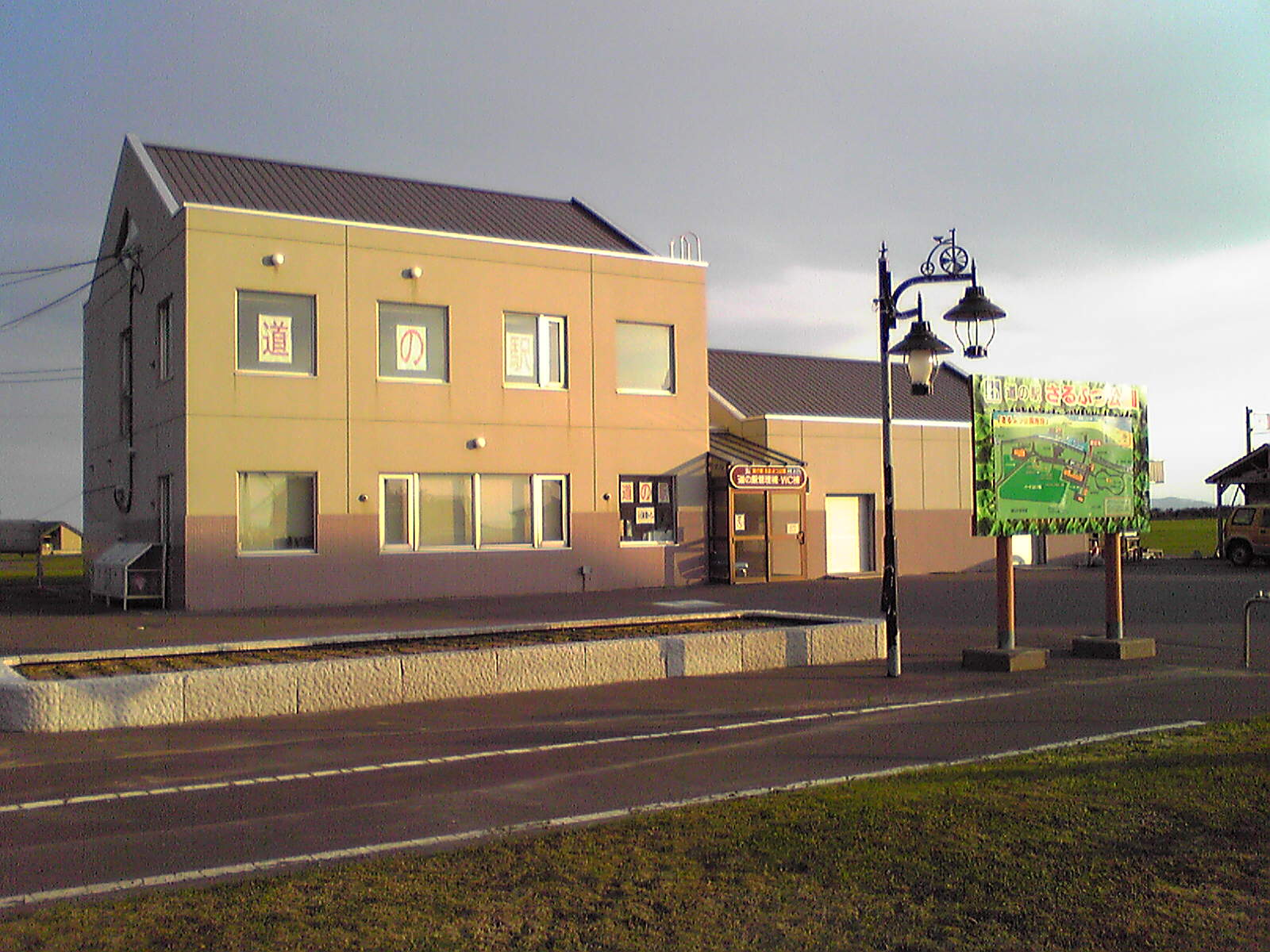 Administration building, Sarufutsu Park, Roadside Station, Hokkaido, Japan.